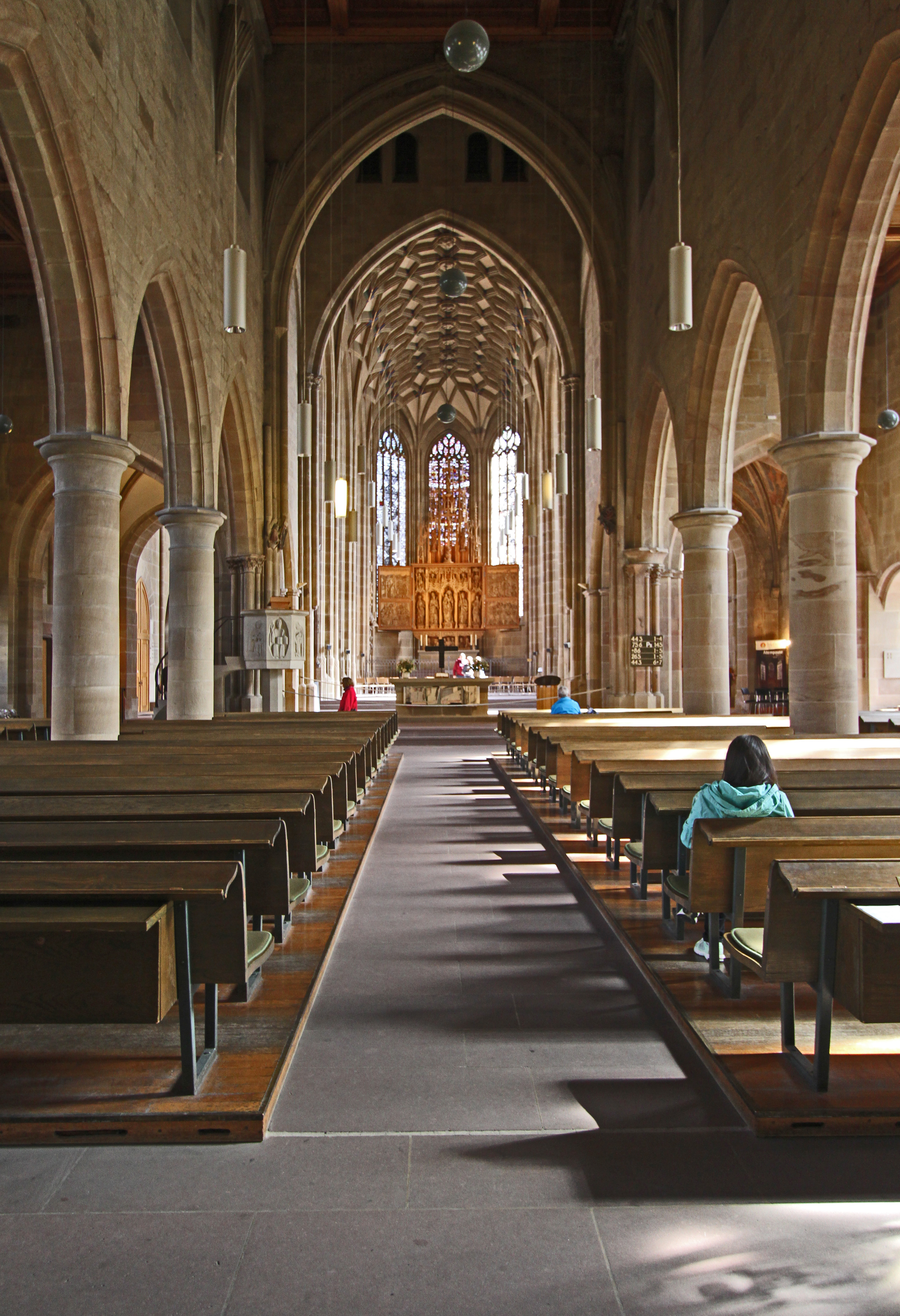 Church of Saint Kilian in Heilbronn, interior decoration.